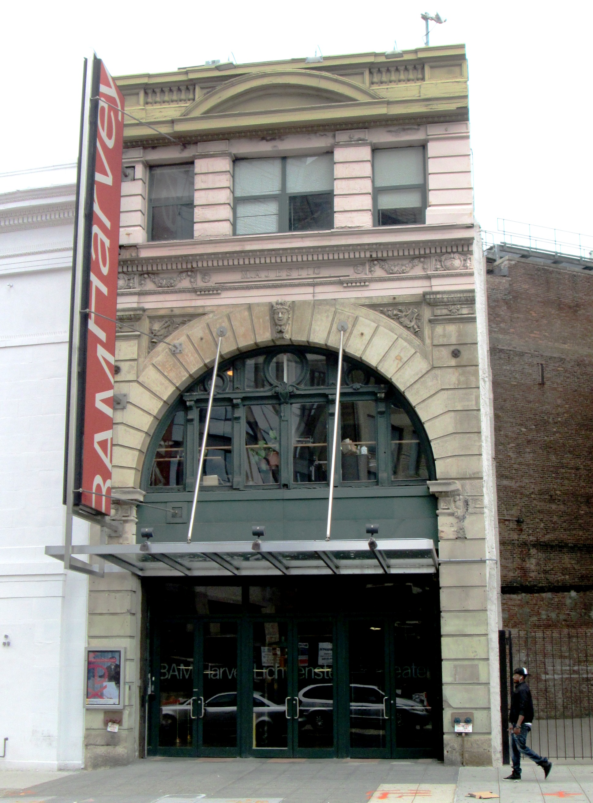 The BAM Harvey Theatre at 651 Fulton Street between Rockwell and Ashland Places, was formerly the Majestic Theatre, and was renamed after the long-time head of BAM, Harvey Lichtenstein. It was built in 1903, and renovated in 1987 by Hardy Holzmann Pfeiffer. (Source: AIA Guide tonYC (5th ed.)) The first production in the newly-renovated- to-look-dilapidated venue was Sir Peter Brooks The Mahabarata.